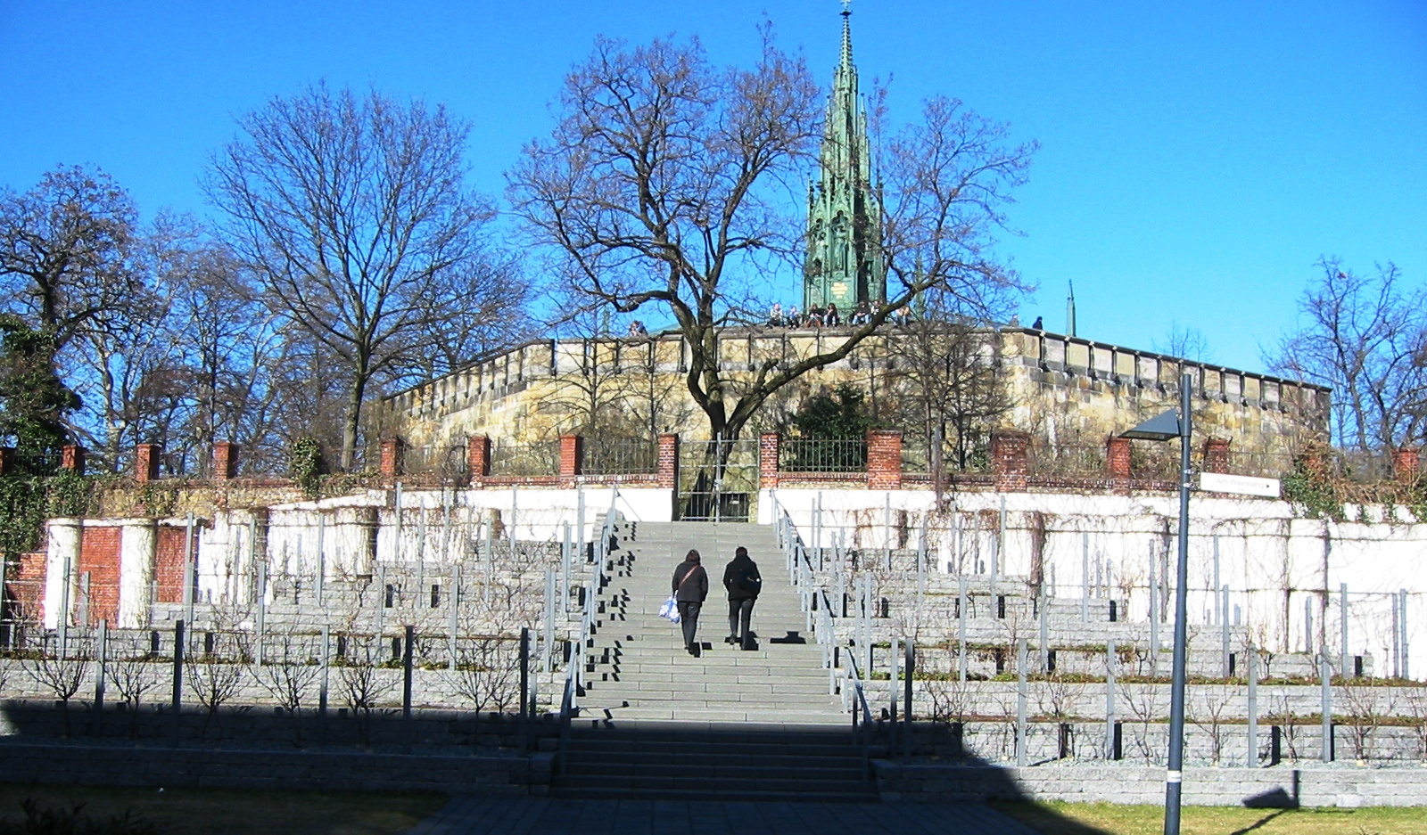 Weinberg "Kreuzberg"in Berlin's Kreuzberg district, where the wine is "Kreuz-Neroberger" grown. In the background is the National Monument of Schinkel.